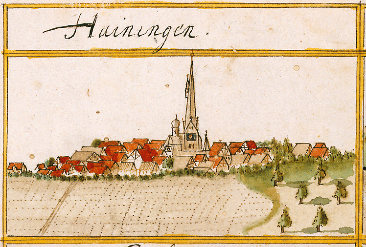 View of Heiningen from the forest register books created by Andreas Kieser